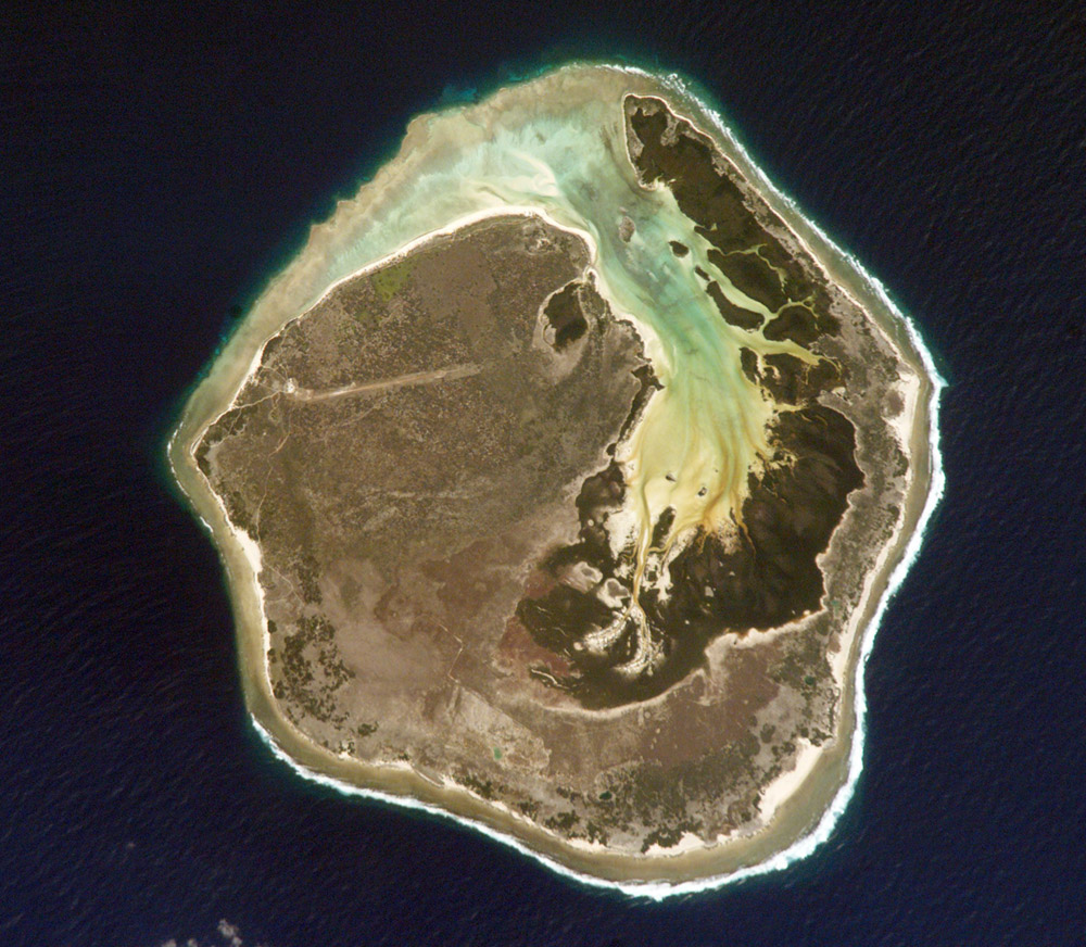 NASA Astronaut Image of Europa Island in the Indian Ocean